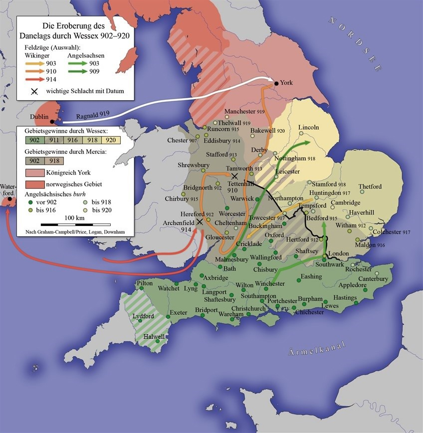 Conquest of Danelag by Wessex 902-920.